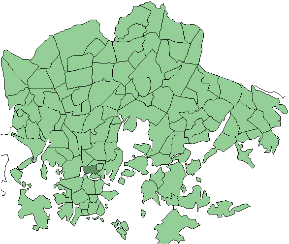 Districts of Helsinki, Linjat highlighted